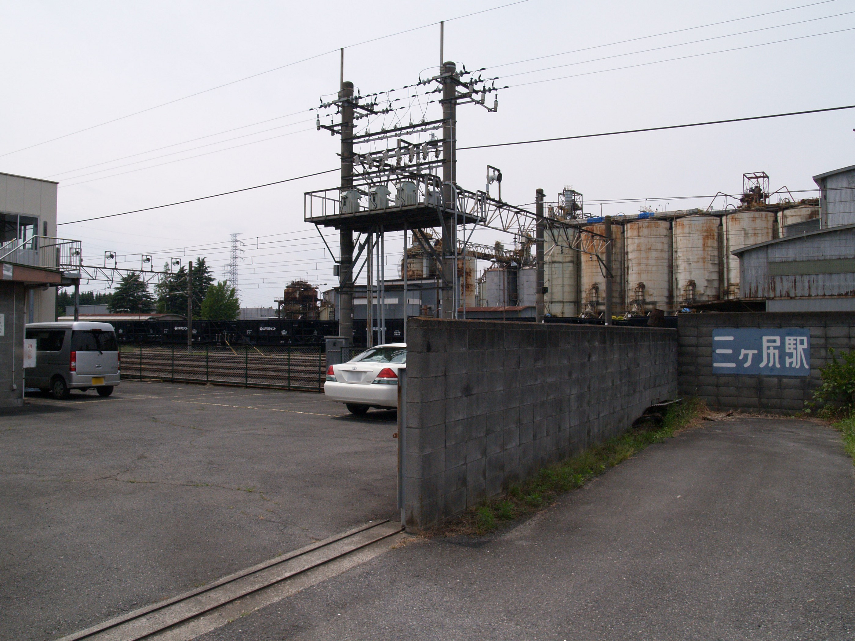 Entrance of Mikajiri Station